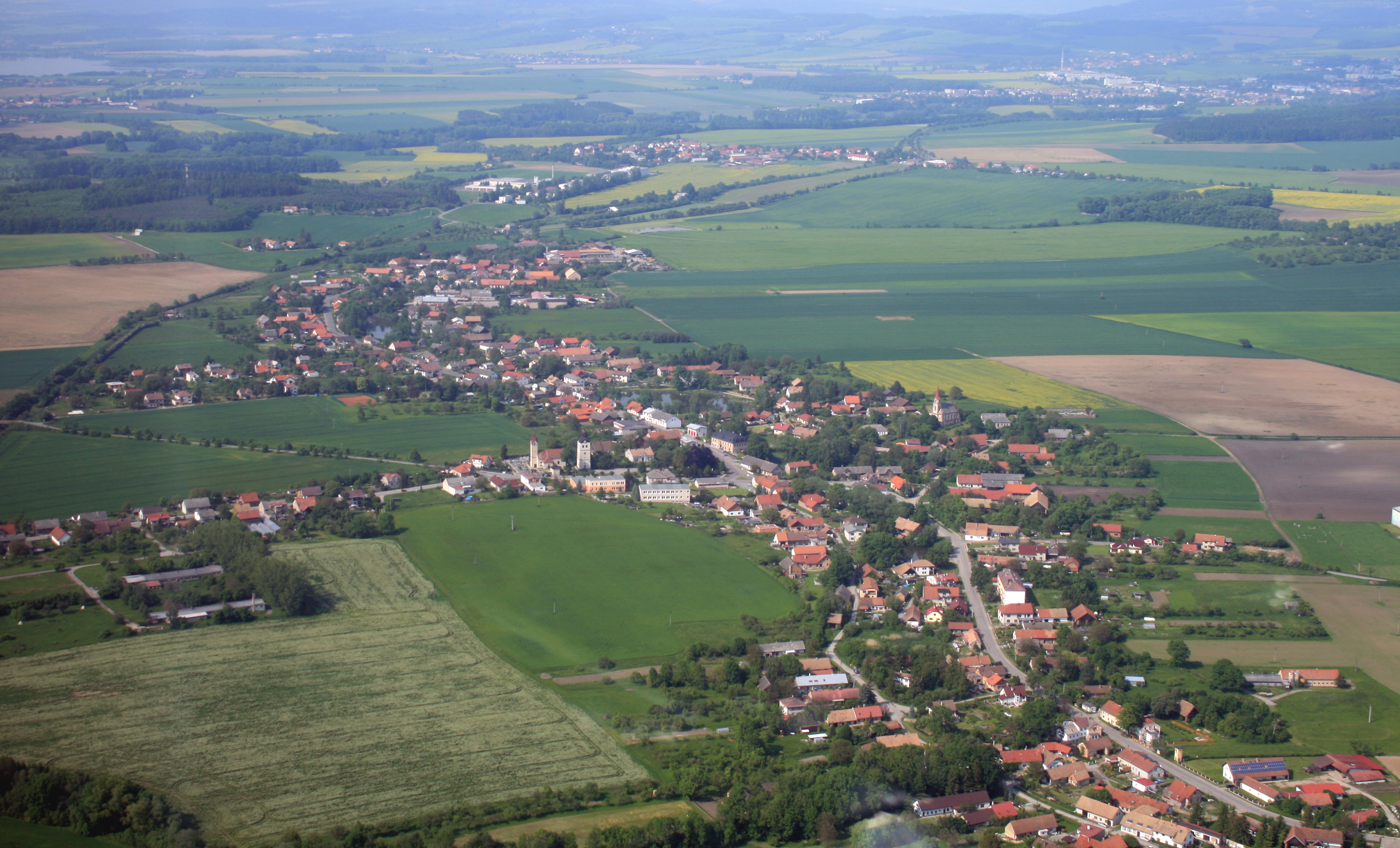 Village Bohuslavice - Náchod District, from air, eastern Bohemia, Czech Republic